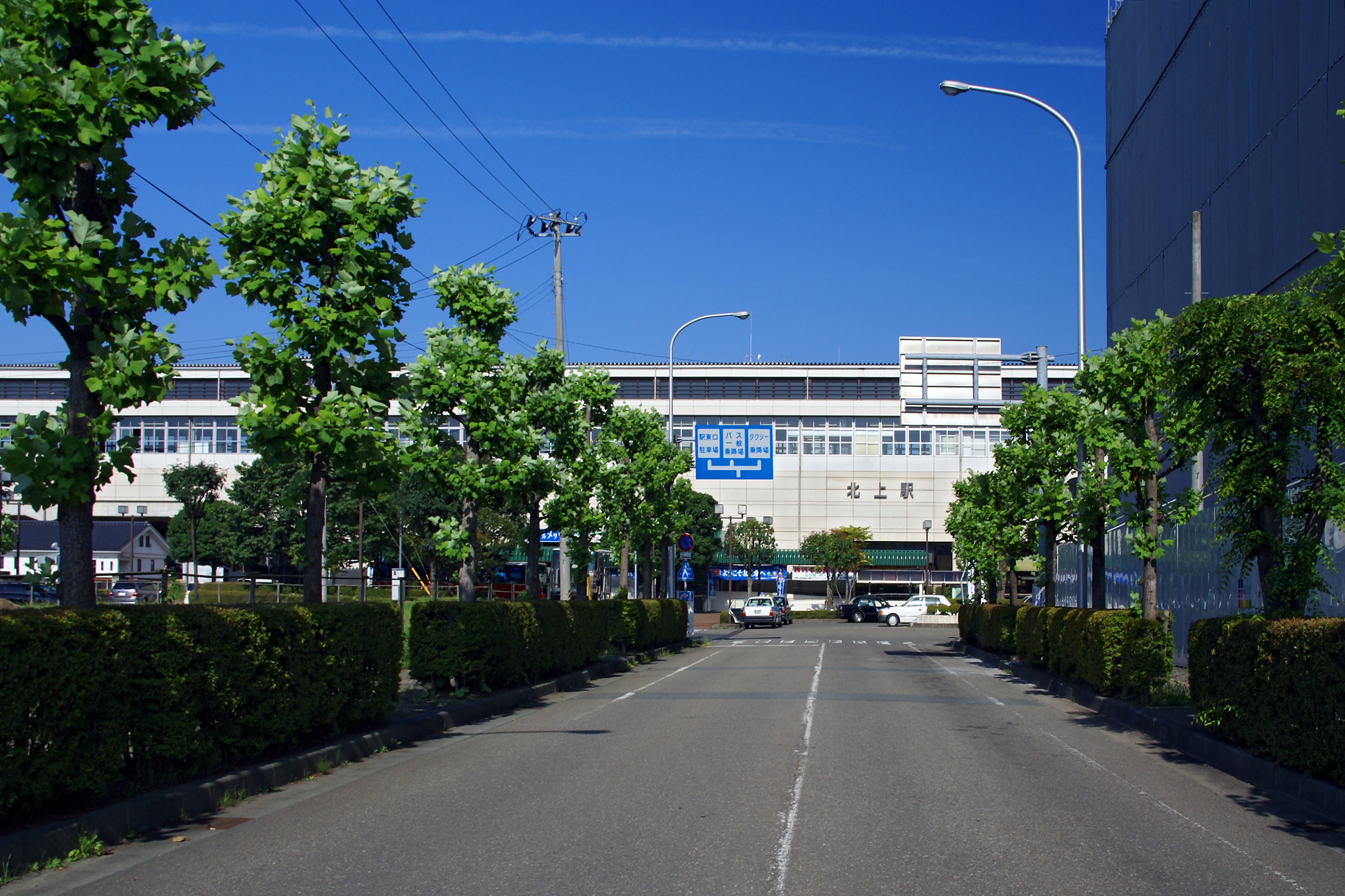 Kitakami Station in Kitakami, Iwate prefecture, Japan